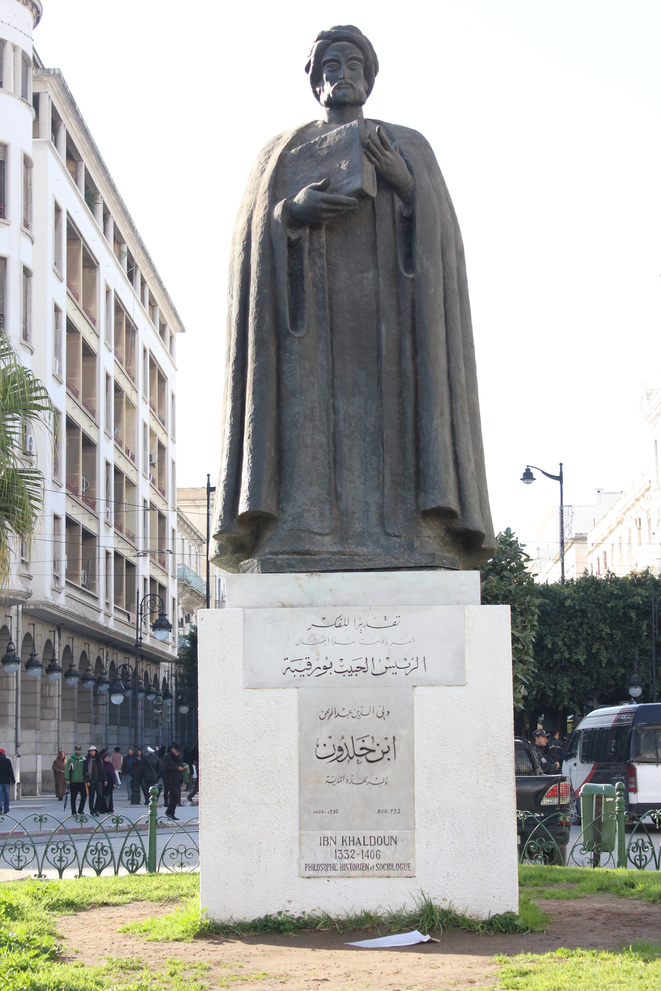 Tunis, Tunisia